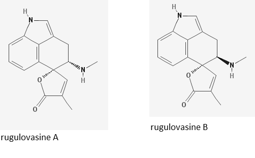 Rugulovasine A and B